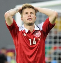 Lasse Schöne in action for Denmark at the Euro 2012 match against Portugal